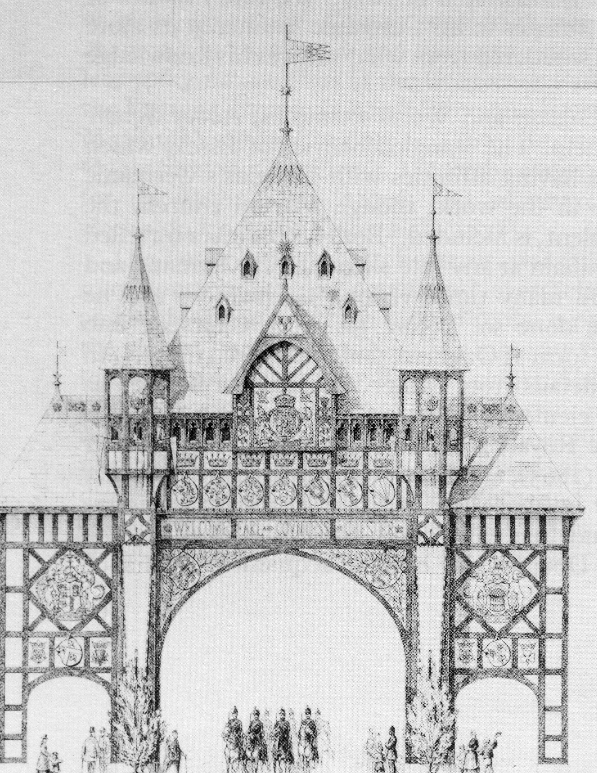 Scanned from the book by me